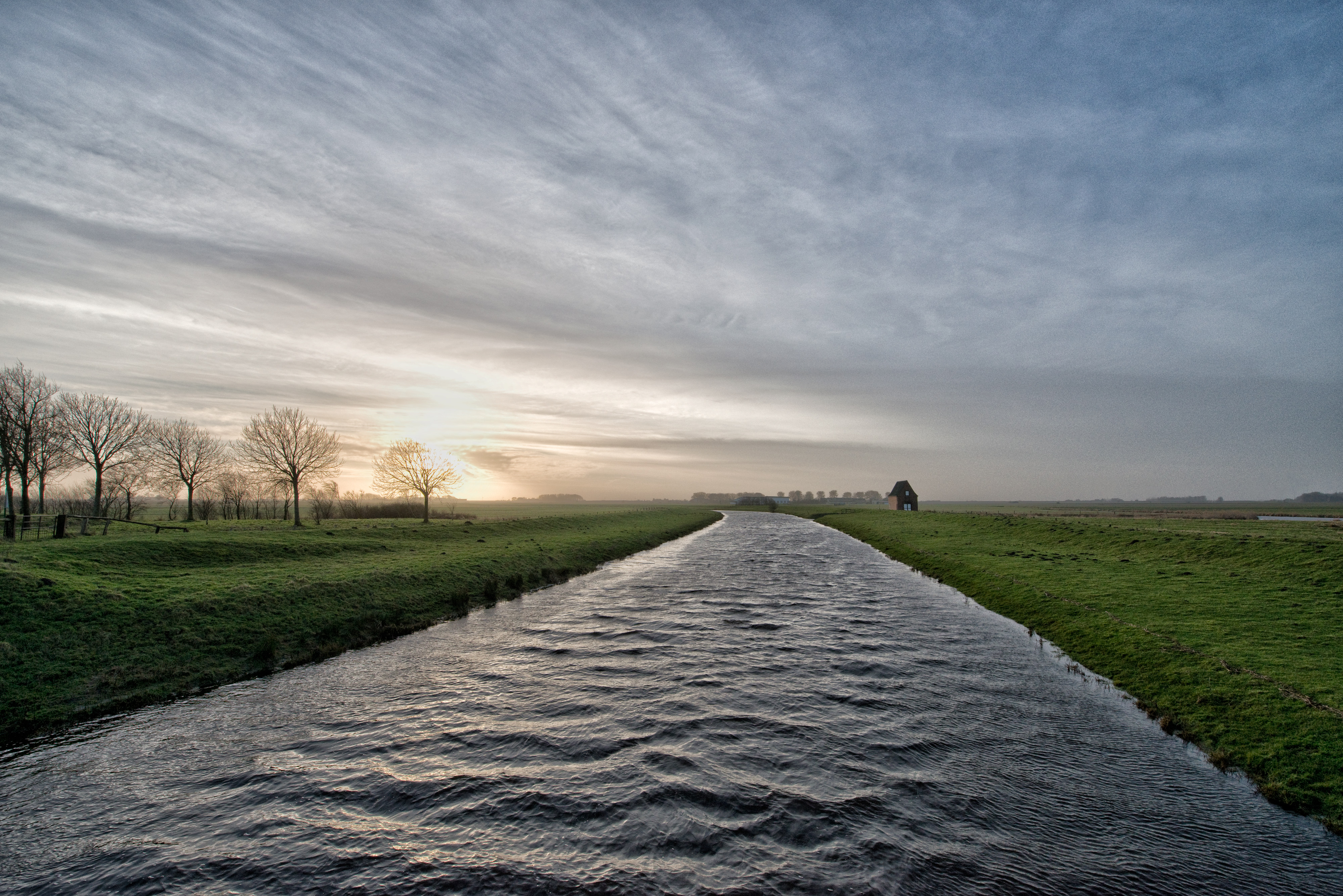 River Arlau in Northern Friesland, Germany